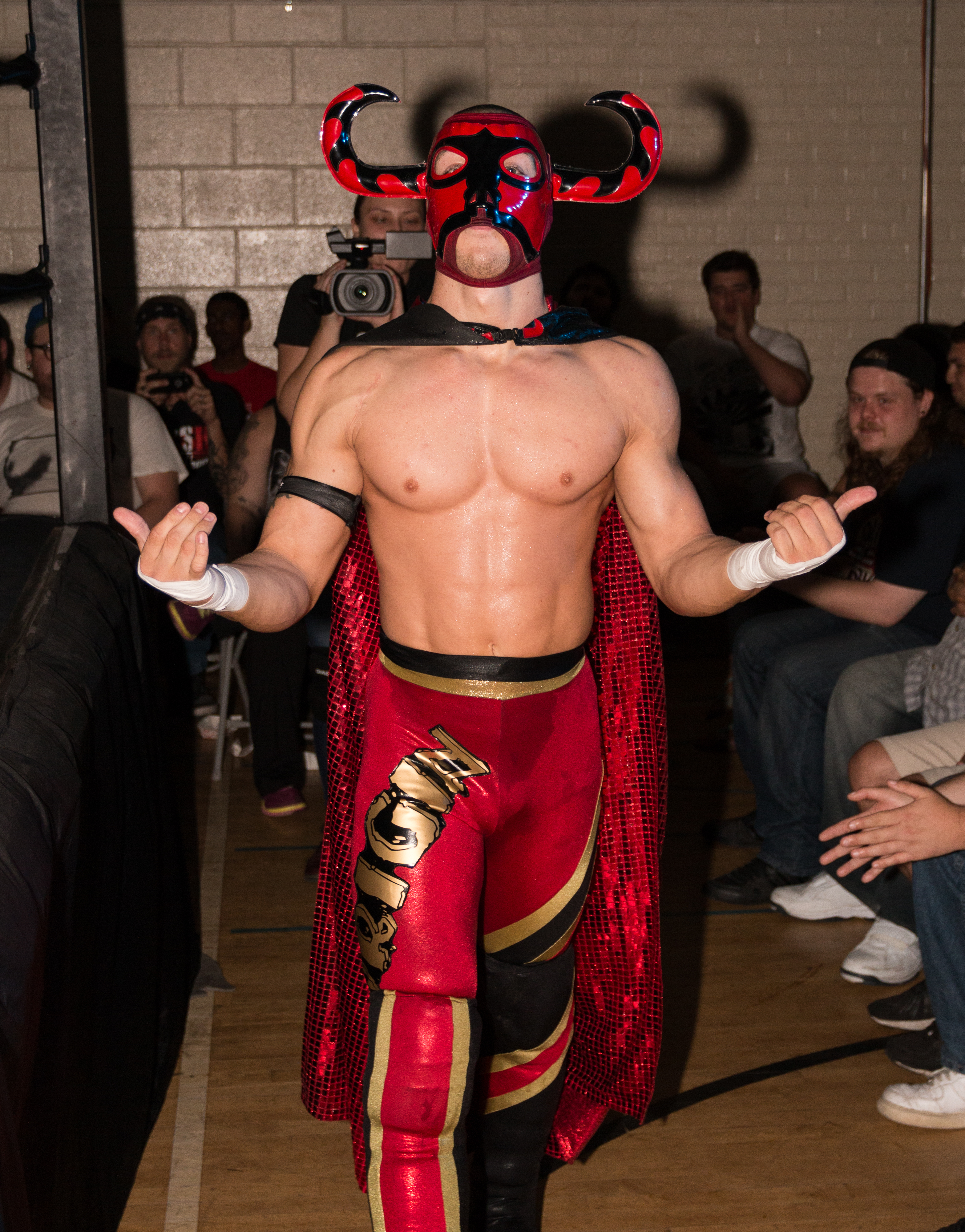 El Ligero making his ring entrance at Day 2 of Smash Wrestling's "Smash vs. Progress" show in Etobicoke, ON